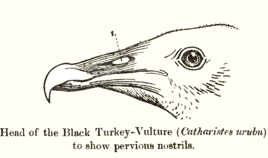 Head of the Black Turkey-Vulture (Catharistes urubu) to show pervious nostrils Vulture head and beak